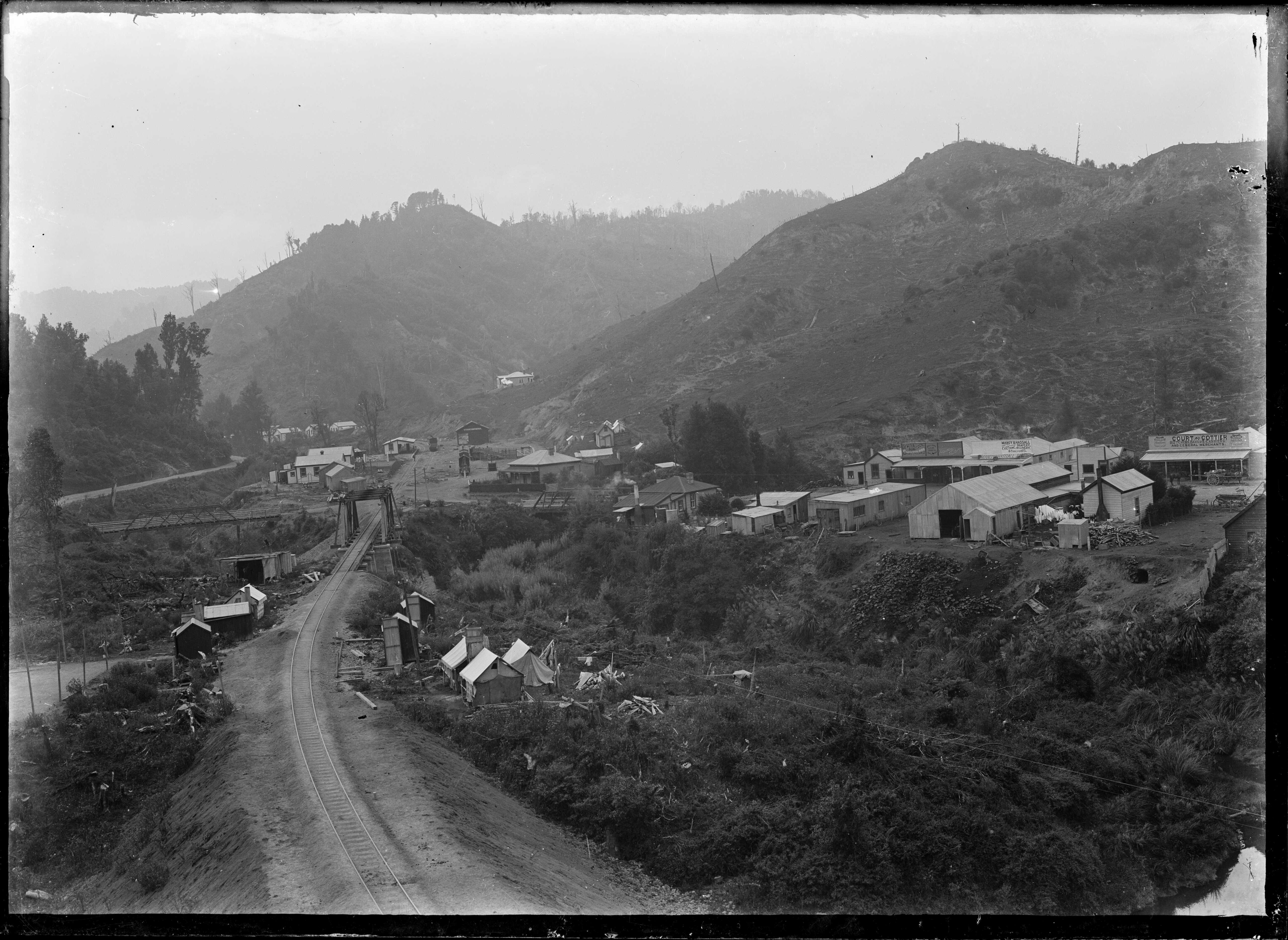 Part 1 of a 2 part panorama overlooking Whangamomona showing the railway line with bridge over the river, huts and tents alongside the railway line, and centre left the business premises of Manoy & Hassall (Drapers), and Court and Cottier (Butchers, bakers, carriers & general merchants). Part 2 at APG-0601-1/2. Photograph taken by Albert Percy Godber between 1915 and 1916.